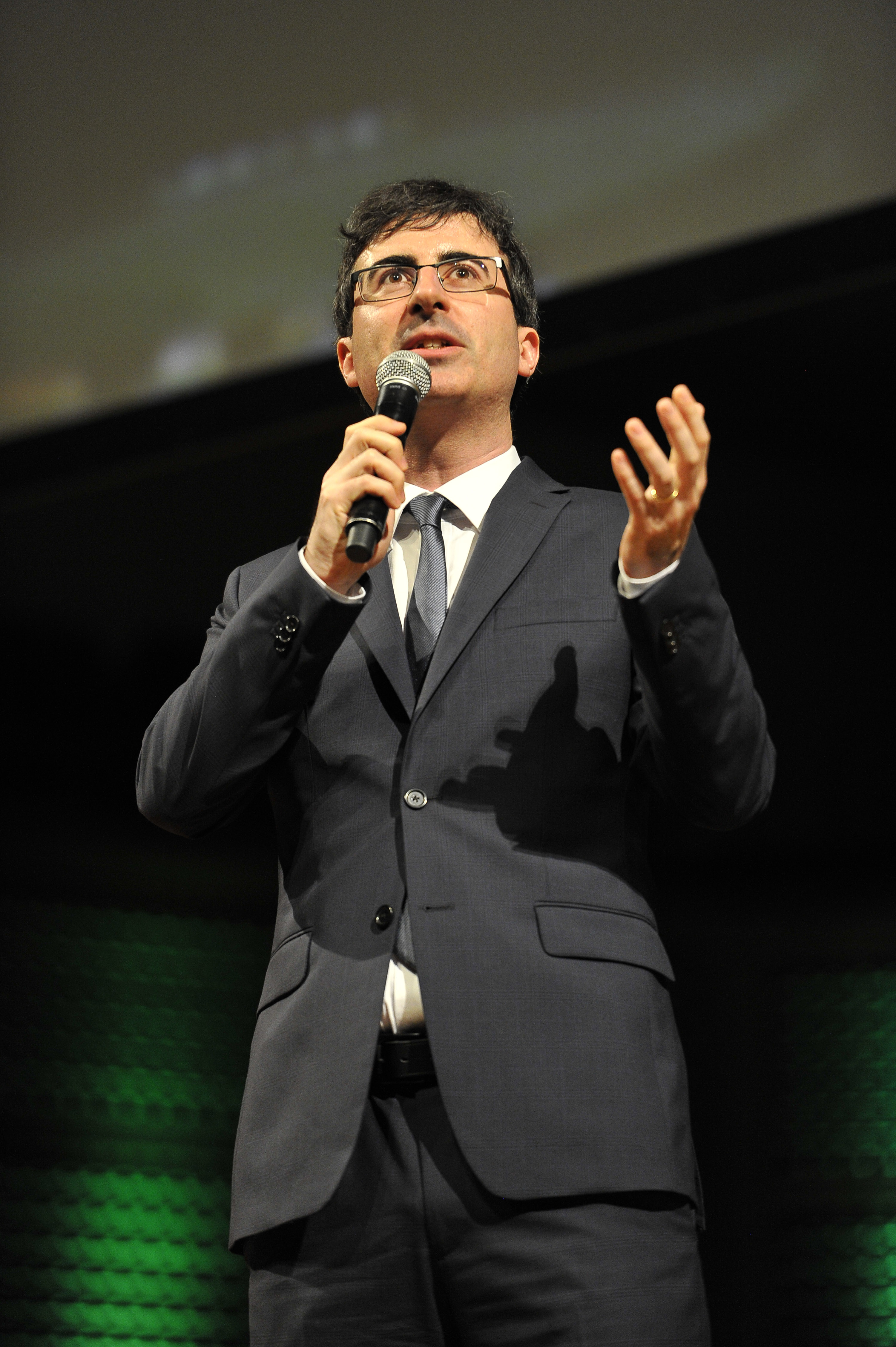 John Oliver at the 7th Annual Crunchies Awards on February 10, 2014 in San Francisco